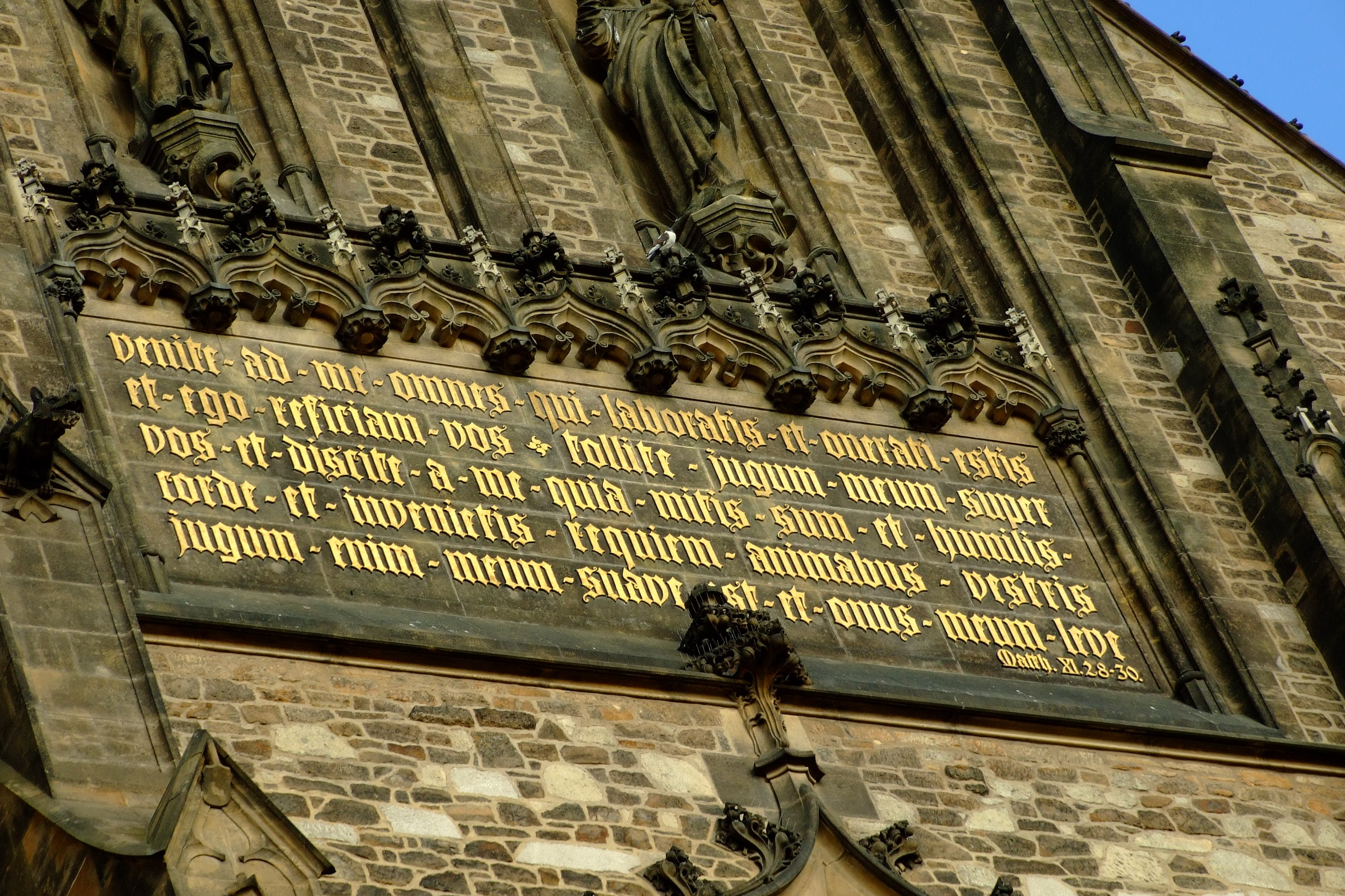 Petrov - extract from Gospel of Matthew, 11:28-30